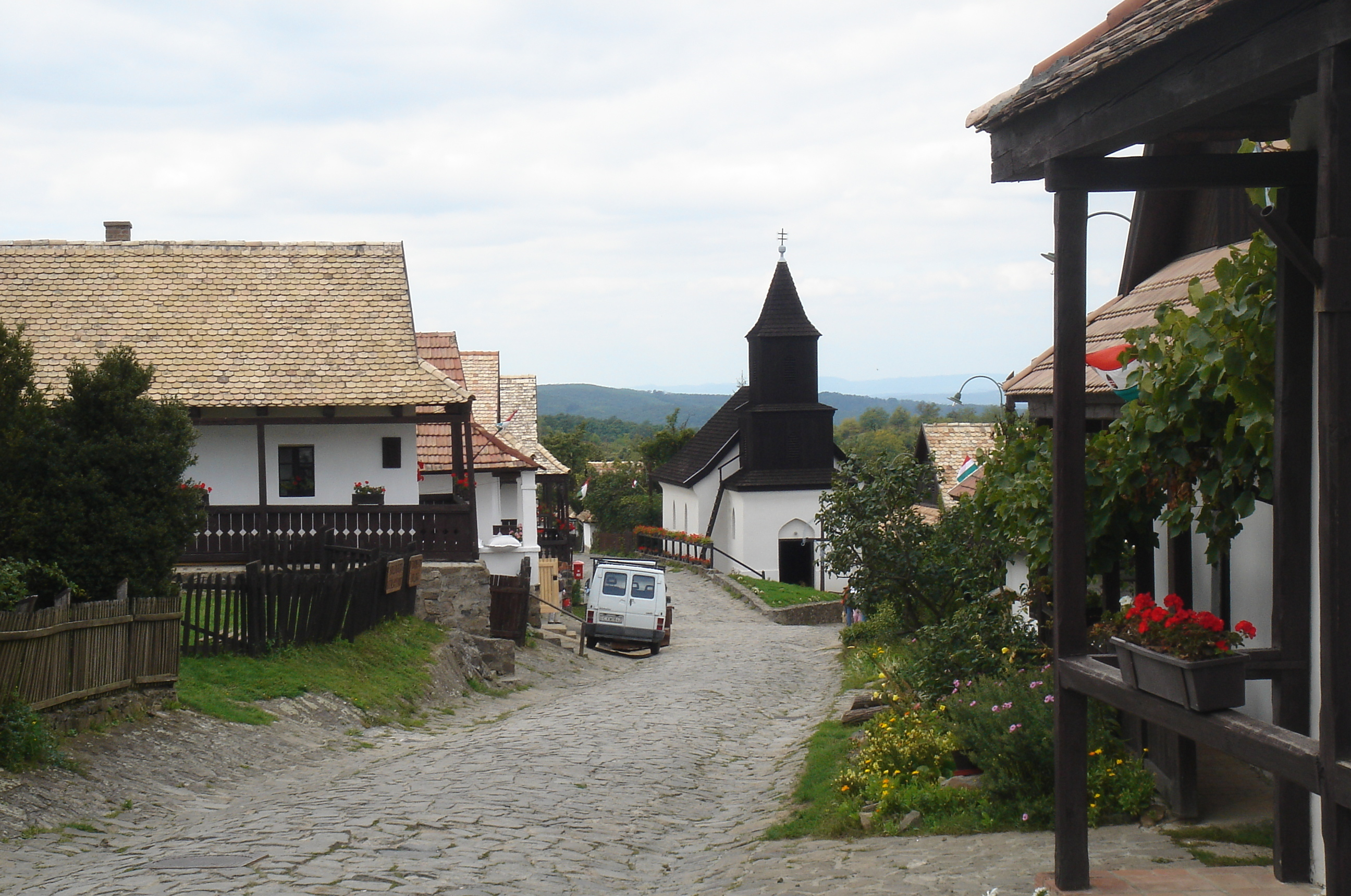 Main street of Holloko